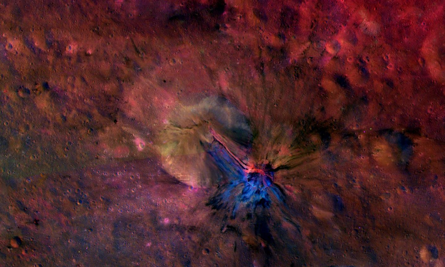 Flowing in, Flowing out of Aelia This colorful composite image from NASA's Dawn mission shows the flow of material inside and outside a crater called Aelia on the giant asteroid Vesta. The area is around 14 degrees south latitude. The images that went into this composite were obtained by Dawn's framing camera from September to October 2011. To the naked eye, these structures would not be seen. But here, they stand out in blue and red. The crater has a diameter of 2.7 miles (4.3 kilometers). The exact origin of the flow structures is unknown. A possible explanation is that the impact that produced the crater could have created liquid material with different minerals than the surroundings. The composite image was created by assigning ratios of color information collected from several color filters in visible light and near-infrared light to maximize subtle differences in lithology (the physical characteristics of rock units, such as color, texture and composition). The color scheme pays special attention to the iron-rich mineral pyroxene. The Dawn mission to Vesta and Ceres is managed by NASA's Jet Propulsion Laboratory, a division of the California Institute of Technology in Pasadena, for NASA's Science Mission Directorate, Washington. The University of California, Los Angeles, is responsible for overall Dawn mission science. The Dawn framing cameras were developed and built under the leadership of the Max Planck Institute for Solar System Research, Katlenburg-Lindau, Germany, with significant contributions by DLR German Aerospace Center, Institute of Planetary Research, Berlin, and in coordination with the Institute of Computer and Communication Network Engineering, Braunschweig. The framing camera project is funded by the Max Planck Society, DLR and NASA. More information about Dawn is online at and